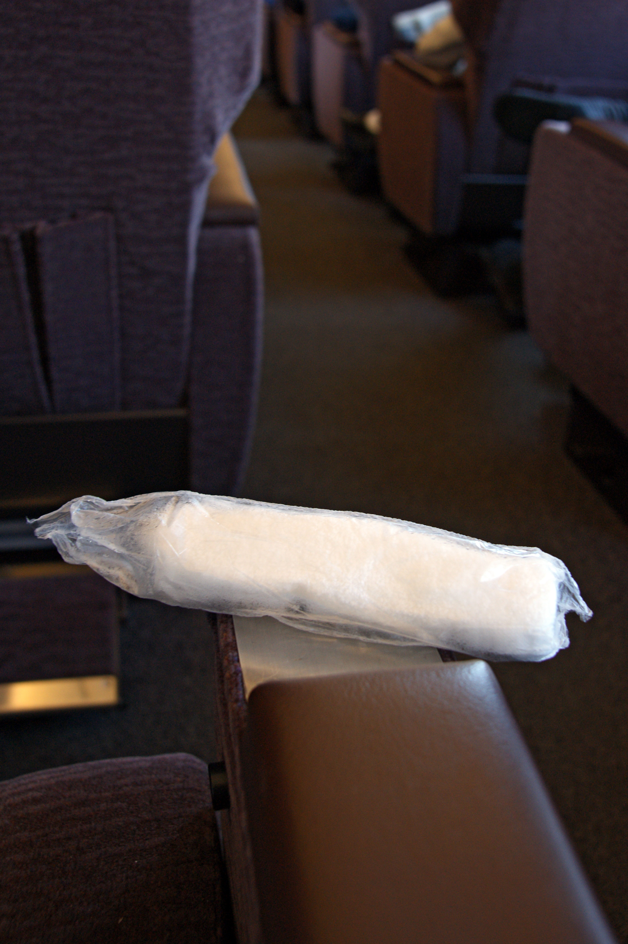 the interior of JR West 683